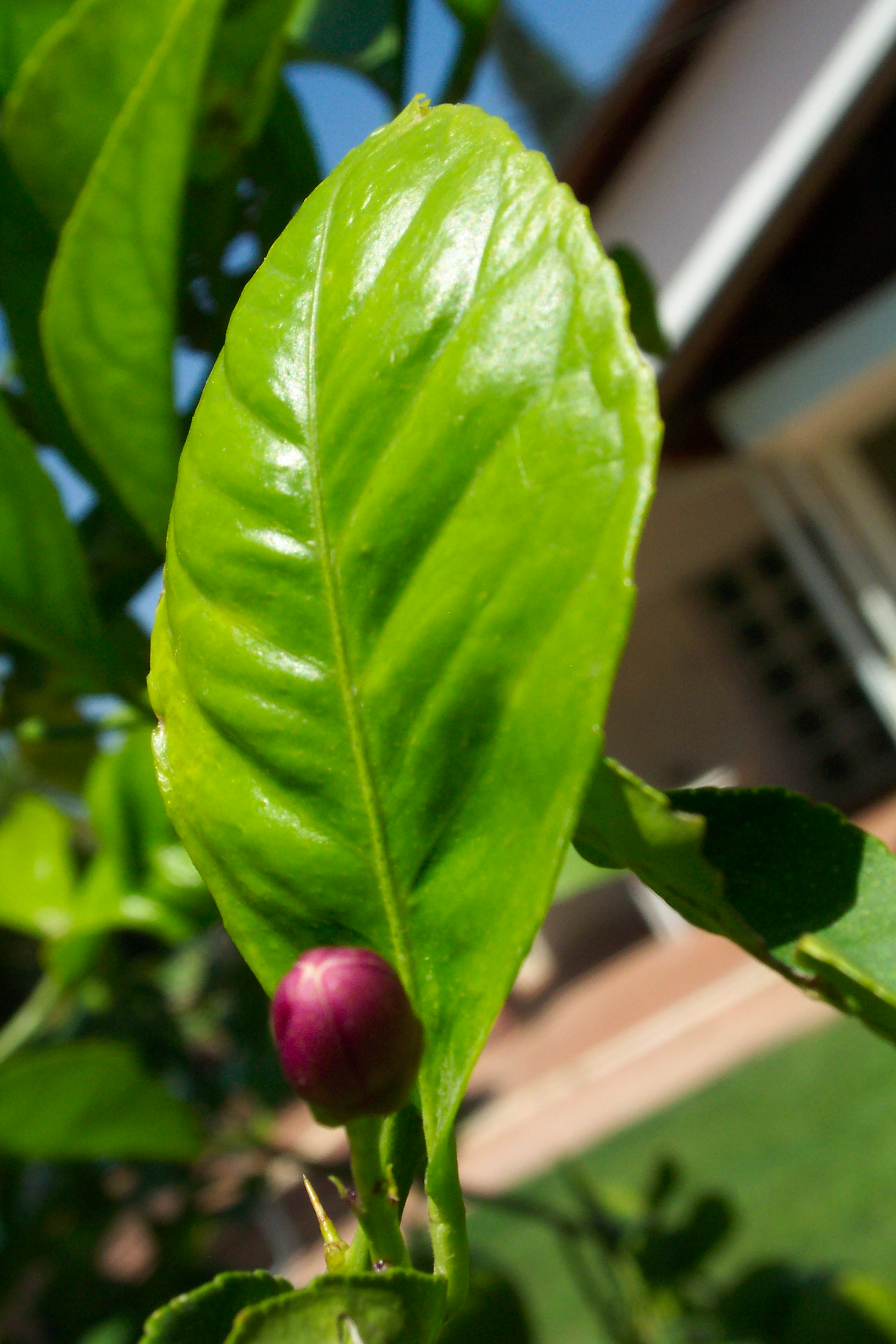 Leaves